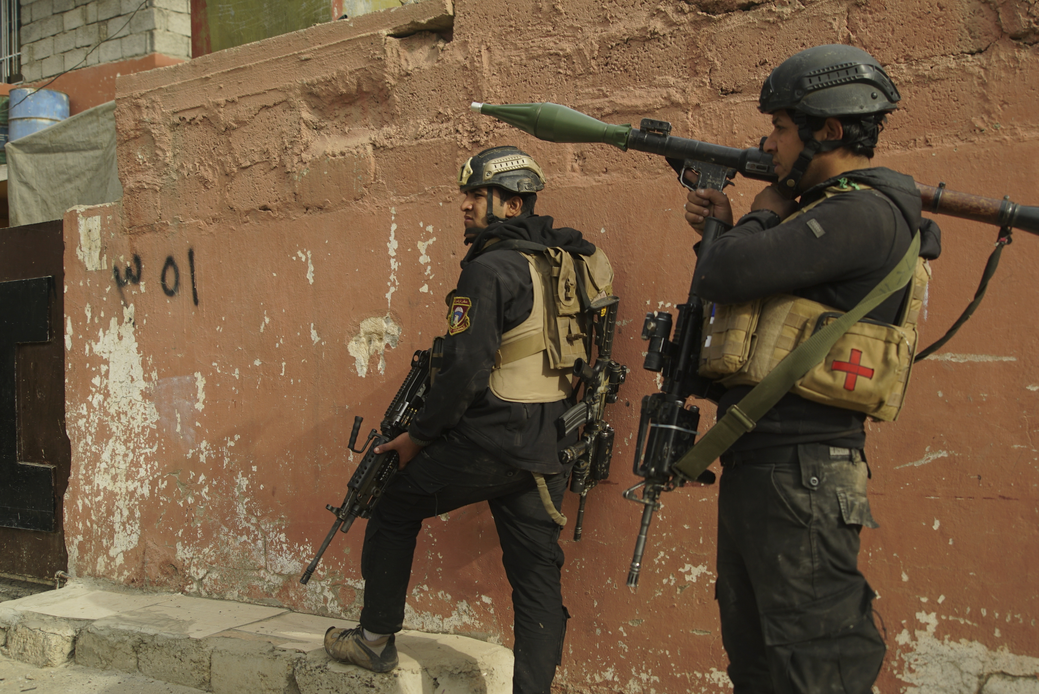 ISOF soldiers captured in Mosul, Northern Iraq, Western Asia. 16 November, 2016.